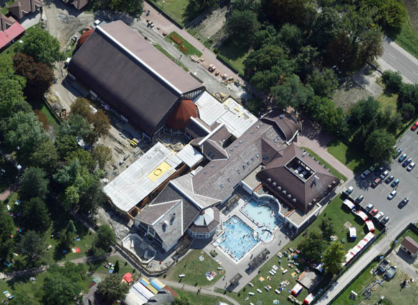 Zsóry-fürdő, bath, Hungary, Borsod-Abaúj-Zemplén County